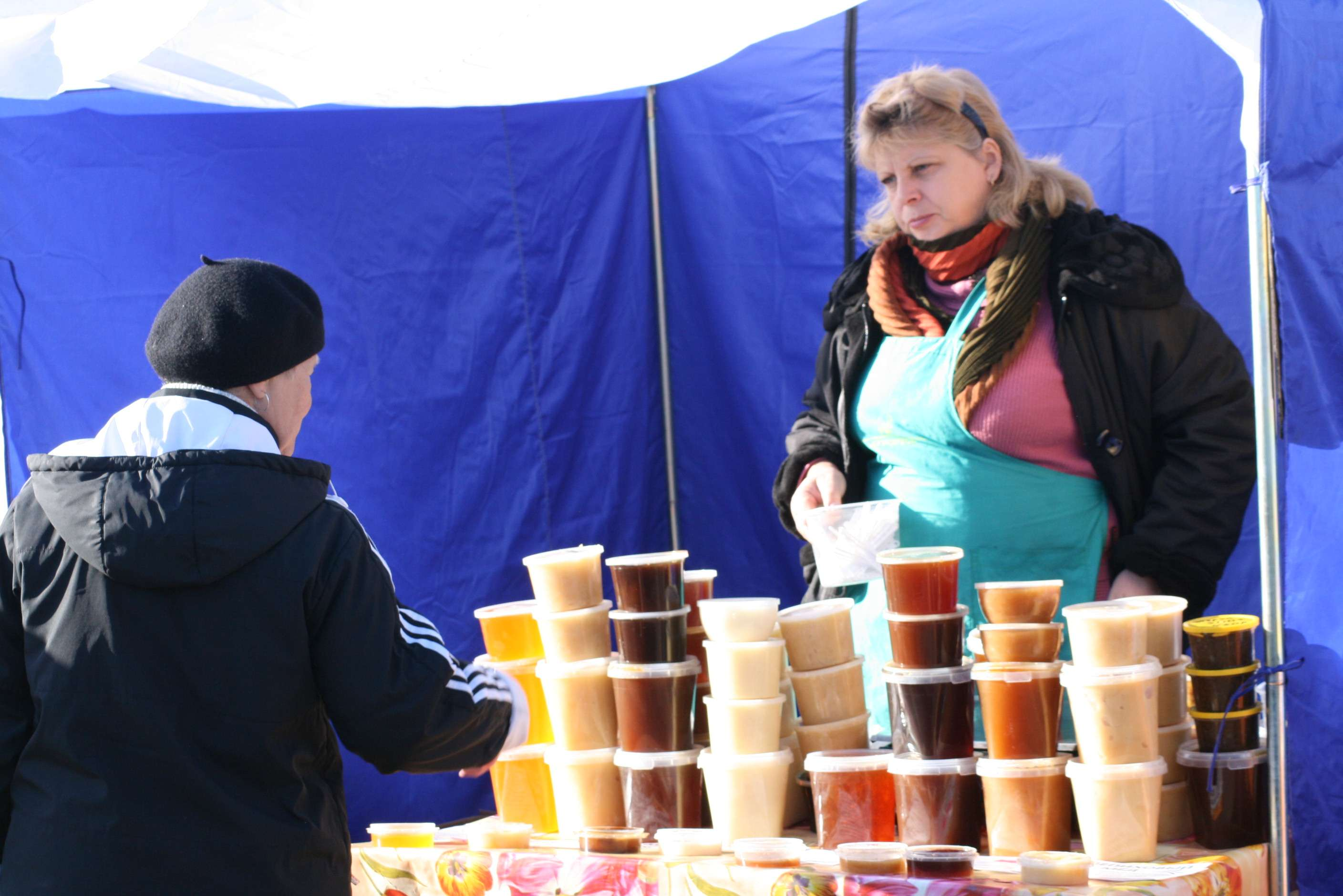 Petrozavodsk market at Kirov square, honey seller